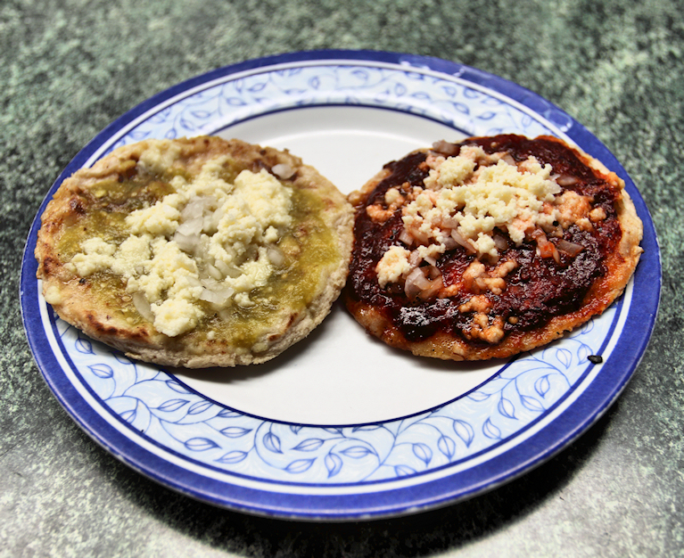 Memelas Oaxaqueñas - toasted cakes made of masa topped with Salsa Verde, Salsa Roja and queso fresco, served in a Cantina in Oaxaca, Mexico.